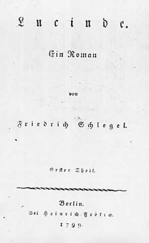 Title page of the first 1799 edition of Lucinde by Friedrich Schlegel